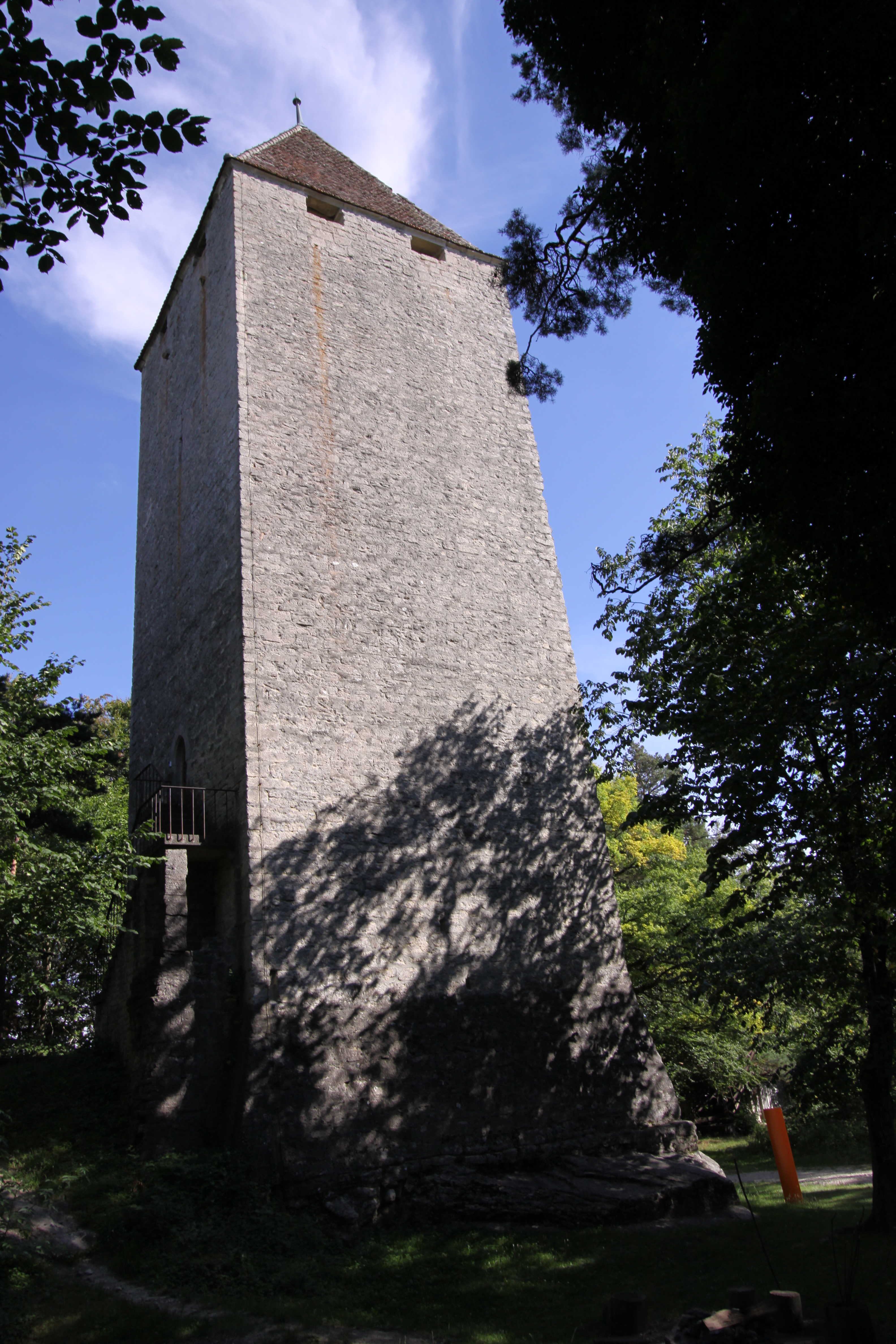 Tower of la Molière, Ruins of the Castle, Murist